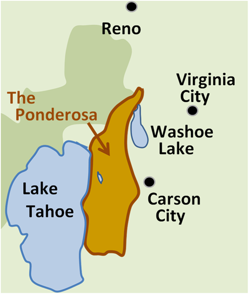 Approximate location of the Ponderosa Ranch from the TV series Bonanza. The map is oriented with North at the top, instead of East as in the version associated with the TV show. The cities of Reno, NV, Carson City, NV and Virginia City , NV are located correctly instead of placing them in positions dictated by artistry and not where they really are. As a result, the boundary of the fictional Ponderosa has been squeezed to place the Ponderosa more or less in equivalent positions with respect to these cities and to Washoe Lake, which would be impossible with the original cartoon of the ranch boundary shown in the TV logo.